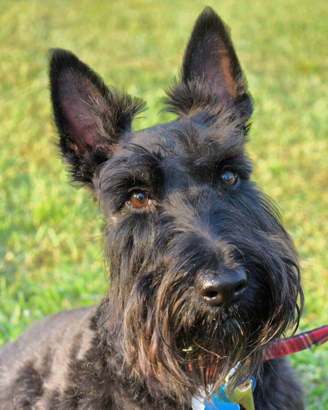 A Scottish Terrier, also known as a Scottie, smiling. This shows the breed's distinctive beard and tall ears.